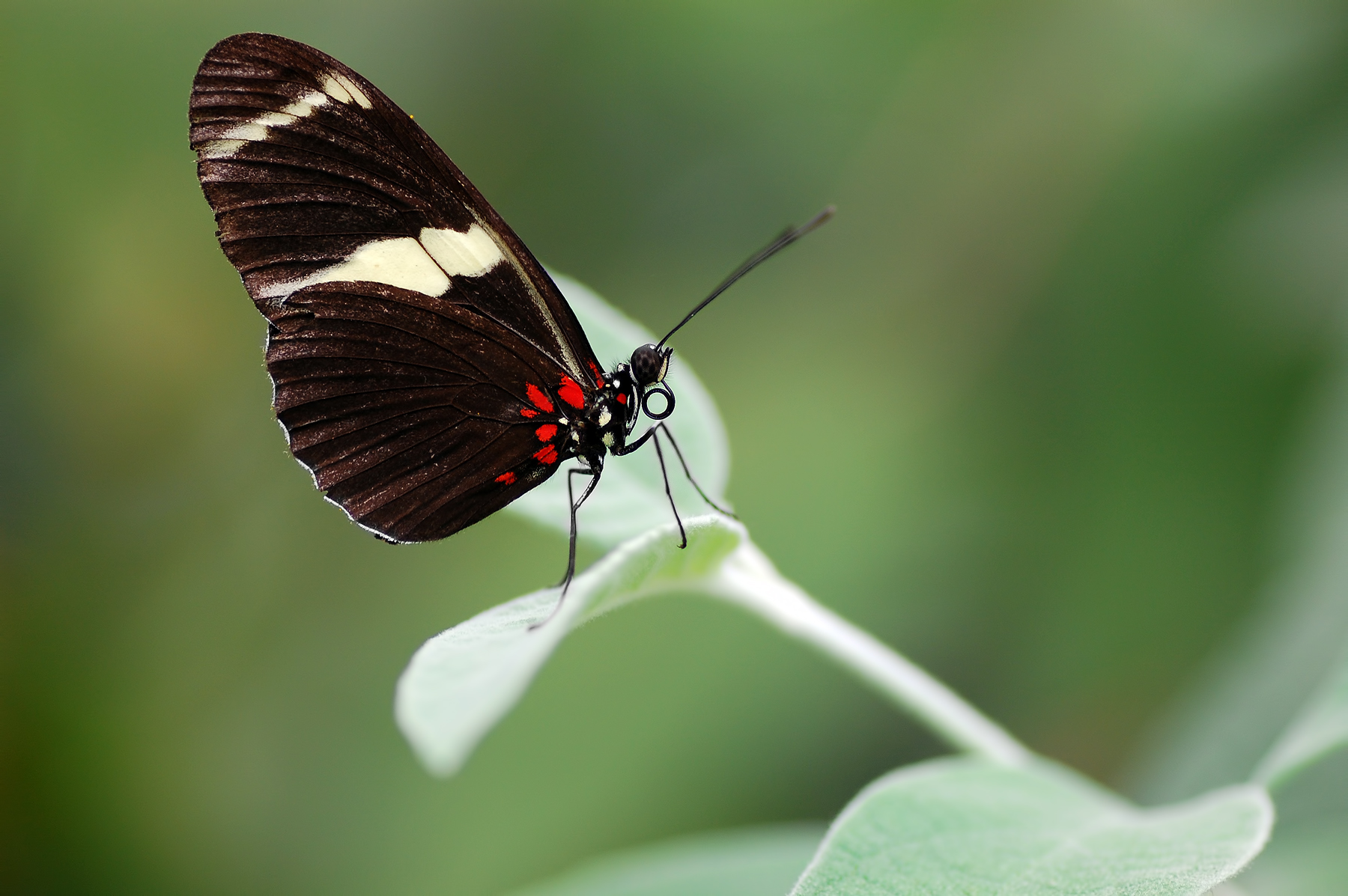 A Sara Longwing (Heliconius sara), taken in butterfly zoo Sayn, Germany.